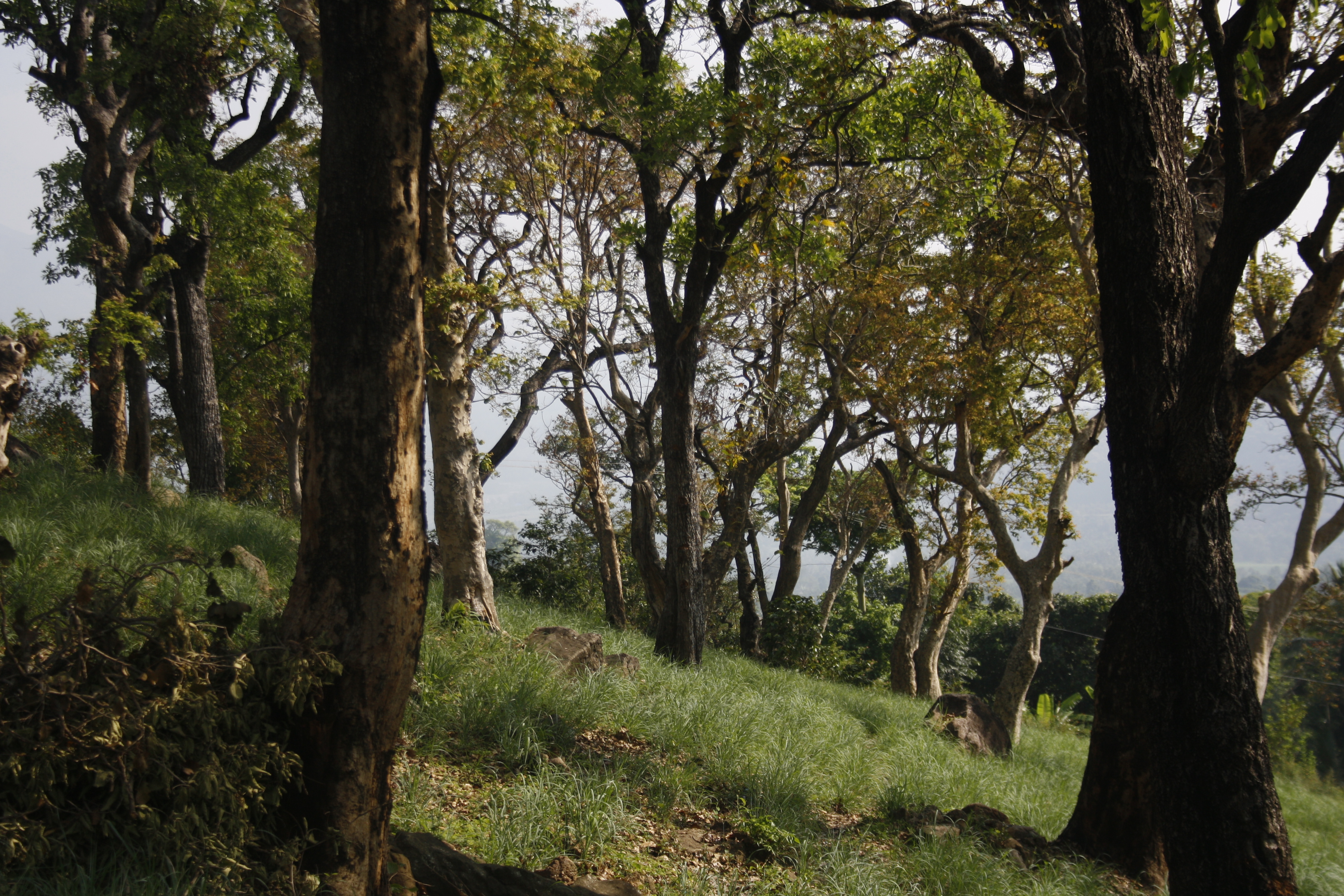 Peripheral forest near Chempettikudy-Marayoor